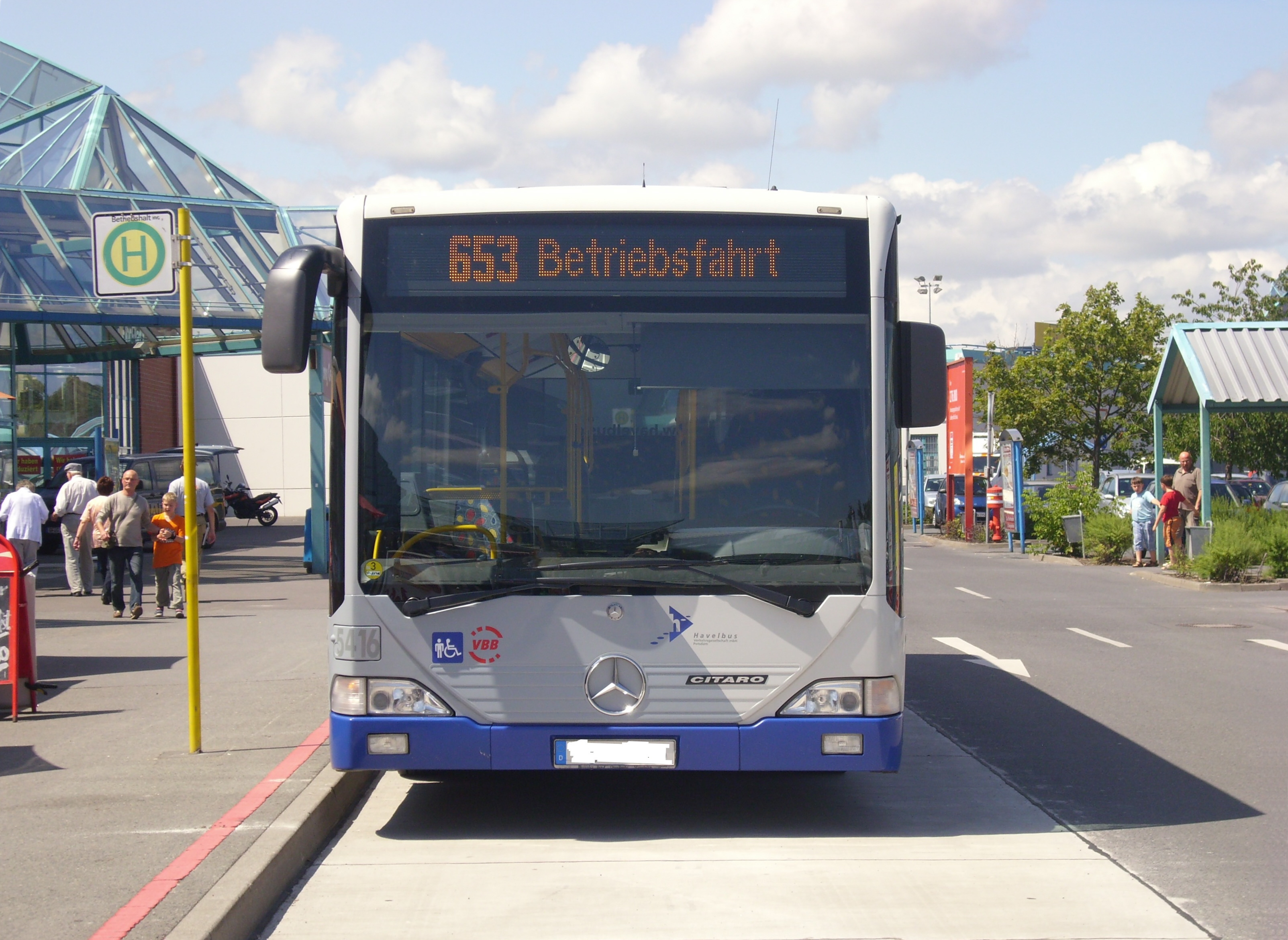 Bus 653 runs to Havelpark